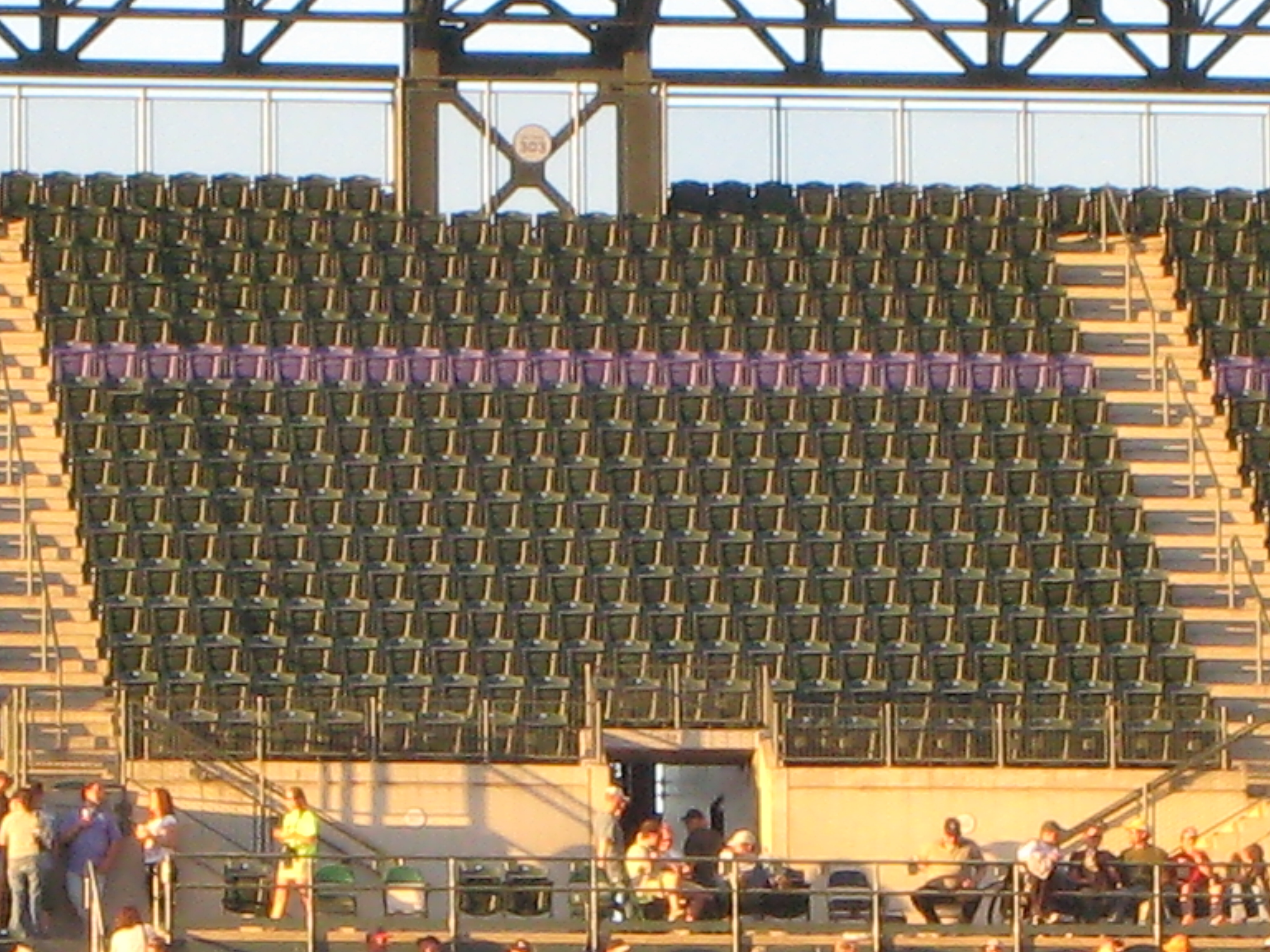 The purple seat line at Coors Field, signifying one-mile elevation point.